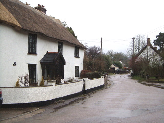 Marsh Green. Thatched cottages in the rain by the village street junction. Looking ENE.